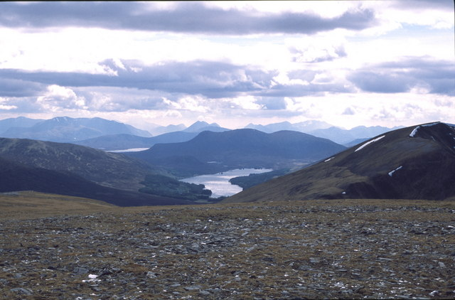 Geal Charn - view down to Loch Ossian Geal Carn is a 1km square plateau with 3 peaks - this is the view from the lowest of them, at 1107m, looking SW down to Loch Ossian